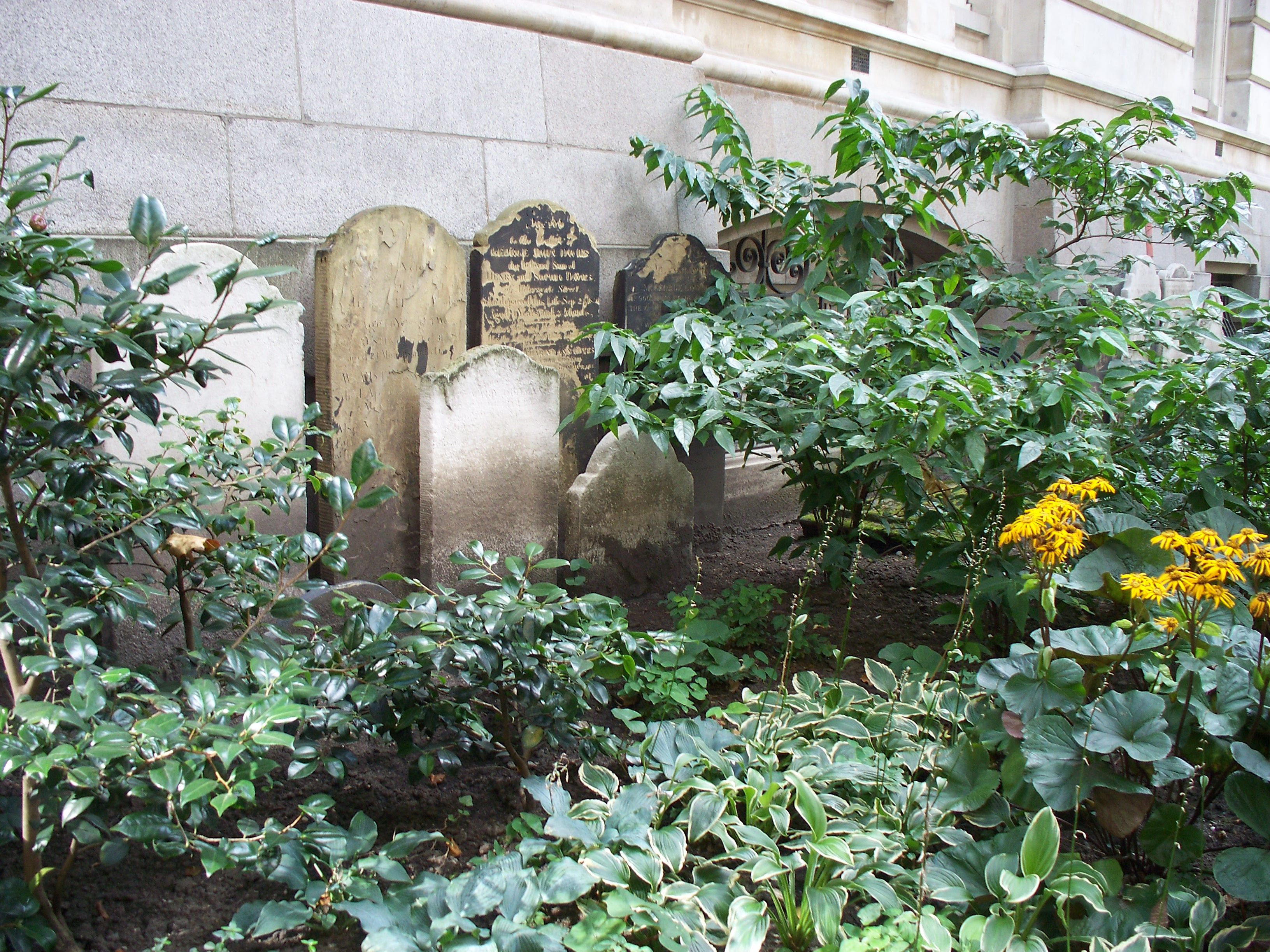 Postman's Park, London. Photograph taken in a public location in the UK of a structure on permanent public display, and exempt from copyright under Section 62 of the Copyright Designs & Patents Act 1988 ("it is not an infringement of copyright to film, photograph, broadcast or make a graphic image of a building, sculpture, models for buildings or work of artistic craftsmanship if that work is permanently situated in a public place or in premises open to the public")